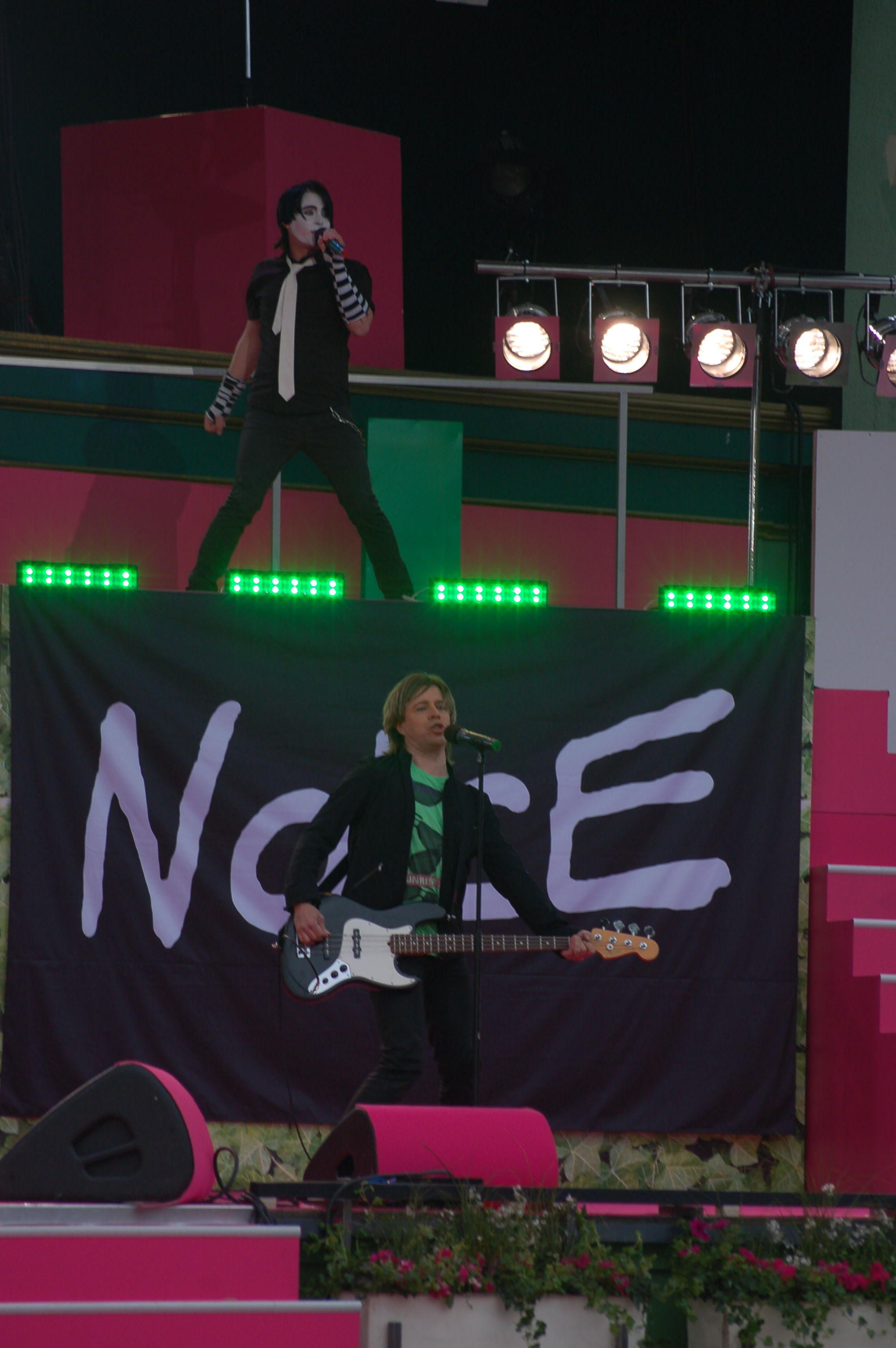 Noice at Gröna Lund, Sommarkrysset